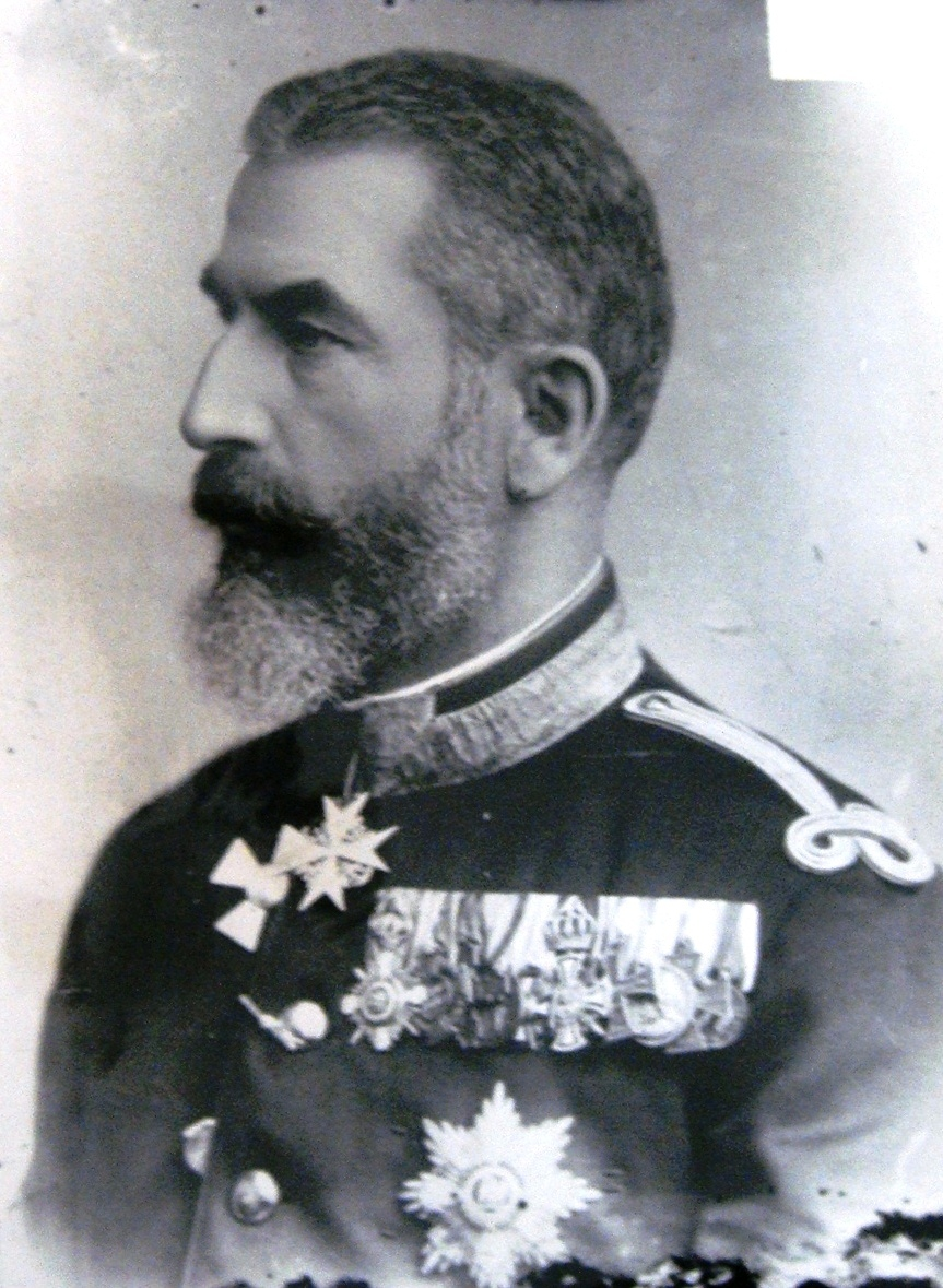 Portrait of Romanian sovereign, Carol I. (Bucharest, 1906) This media file is produced by Wikipedian in Residence in Category:Wikipedian in Residence at DARM in 2016.